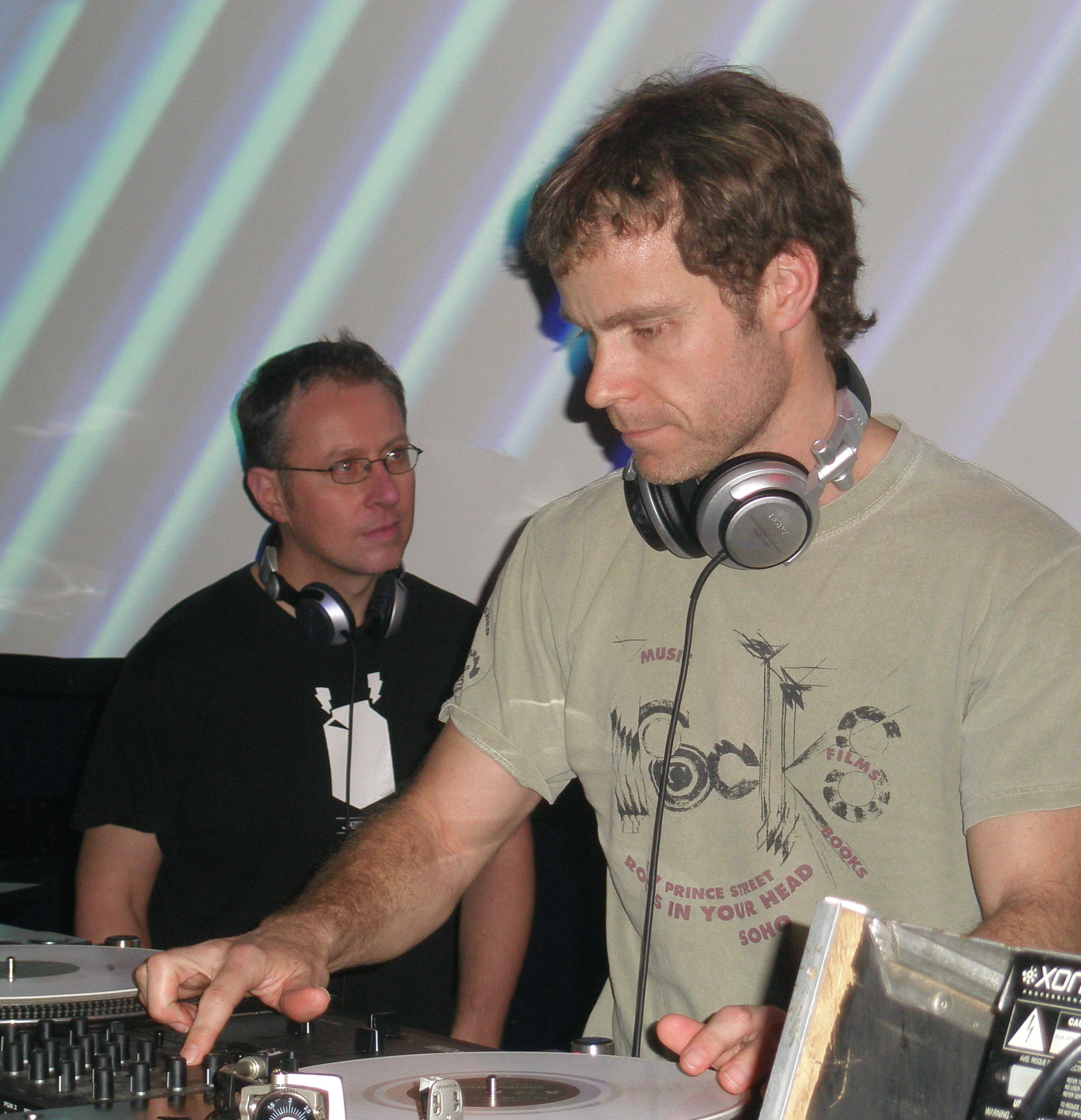 Strictly Kev alias DJ Food (background) and Darren Knott alias DK (foreground) performing for The Remix All-Nighter at SeOne Club in London (England) on March 20th, 2008.